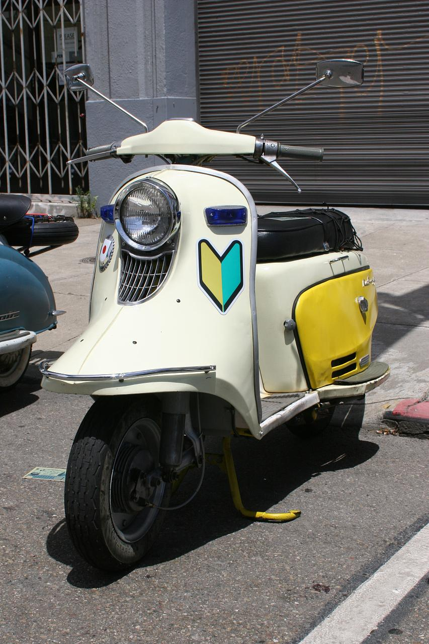 Fuji Touring 150 - This bike make it through the whole ride. (Fuji fans will know this is significant).